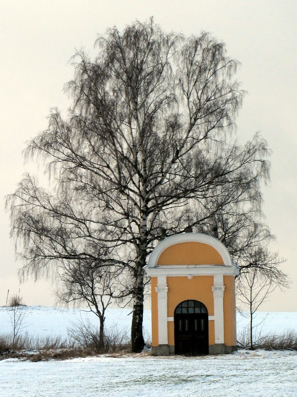 Olesna - St. Florianus chapel near the I/38 road